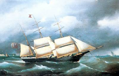 The Bremen bark UNION was built at Burg (Bremen-Burg) by J. H. Bosse, and was launched on 6 September 1854. Her original owners were the Bremen firm of Konitzky & Thiermann. The UNION was employed chiefly in the emigrant trade. In 1863, she was sold to Engelbert Walte, of Bremen, and placed under the command of Johann Conrad Heinrich Eckenberg (1863-1864), then of Wilhelm Philipp August Picherl, both of Bremen. In 1865, she was sold again, to a Captain Berg, of Friedrichshald, Norway, who was sailing her until about 1872. Her ultimate fate is not known.